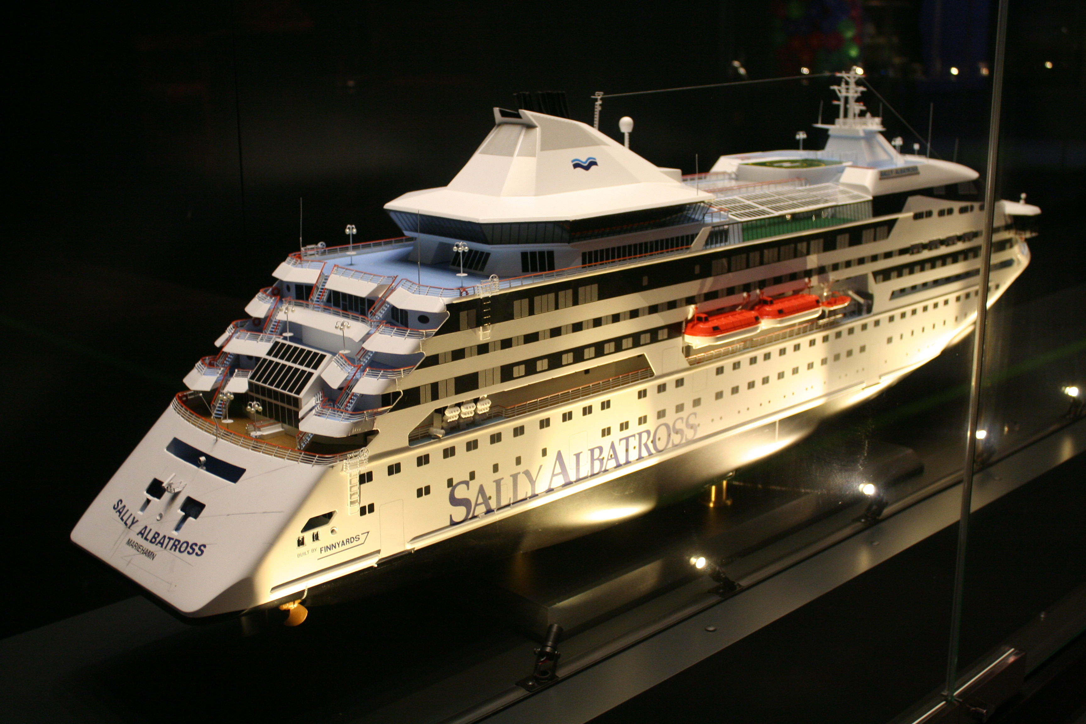 A model of the Sally Cruise cruise ship MS Sally Albatross as she appeared following the 1992 rebuilding. The model is on display at the Finnish Maritime Museum exhibition at Maritime Center Vellamo in Kotka, Finland.